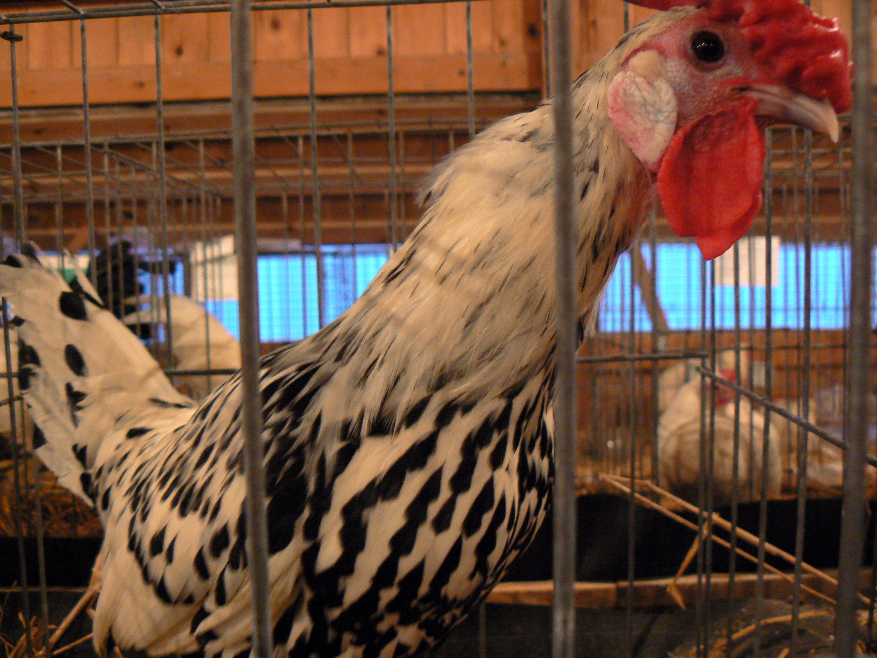 A Silver Spangled Hamburg (or Hamburgh) chicken.